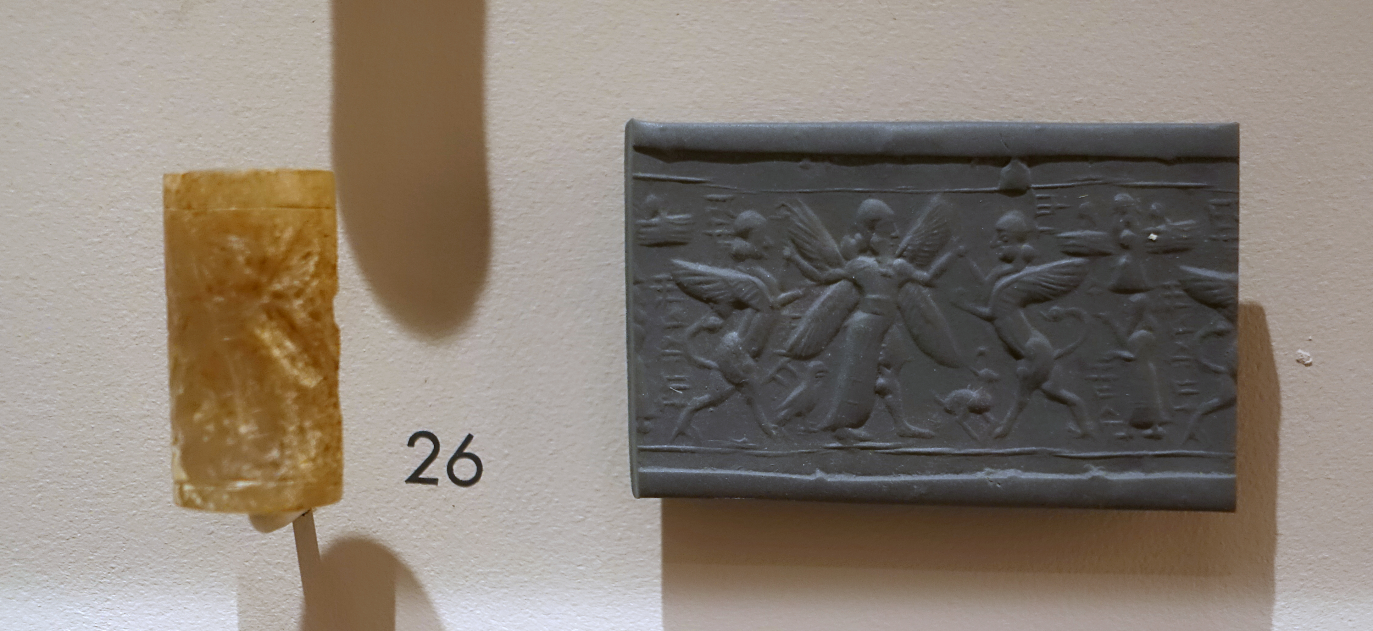 Exhibit in the Harvard Semitic Museum, Harvard University - Cambridge, Massachusetts, USA. This work is old enough so that it is in the public domain.